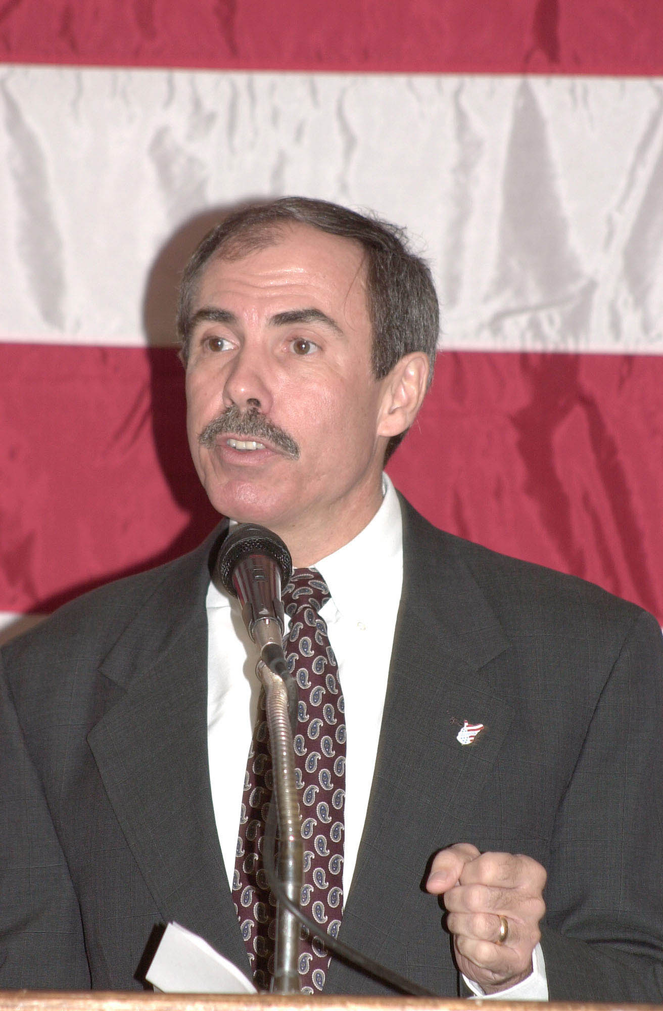 Beckley, WV, January 15, 2002 -- Governor Bob Wise addresses participants at a news conference. The occasion was the six-month anniversary of the disastrous July flooding in southern West Virginia. FEMA News Photo